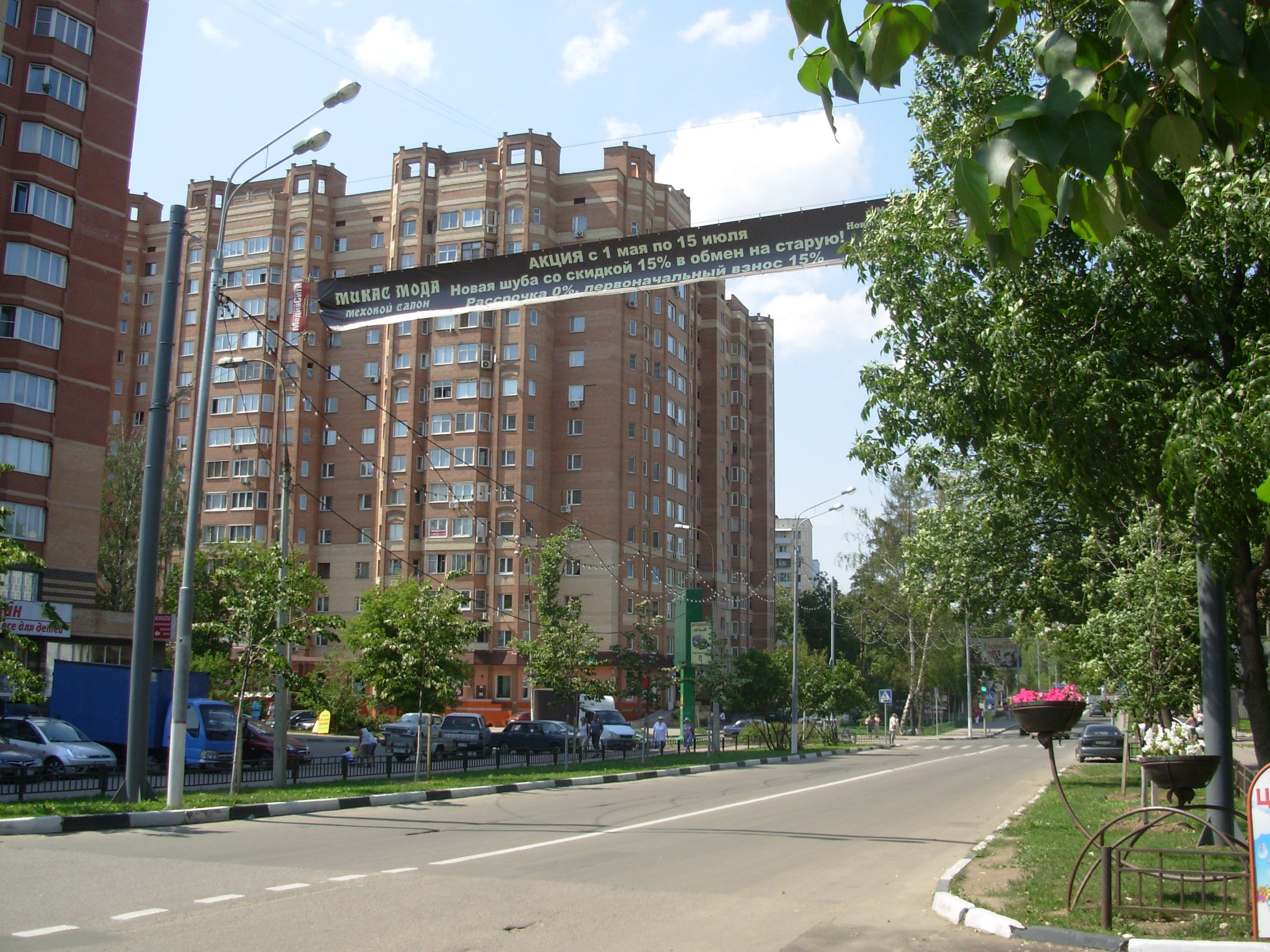 street